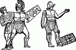 Combat between a Mirmillo and a Samnite